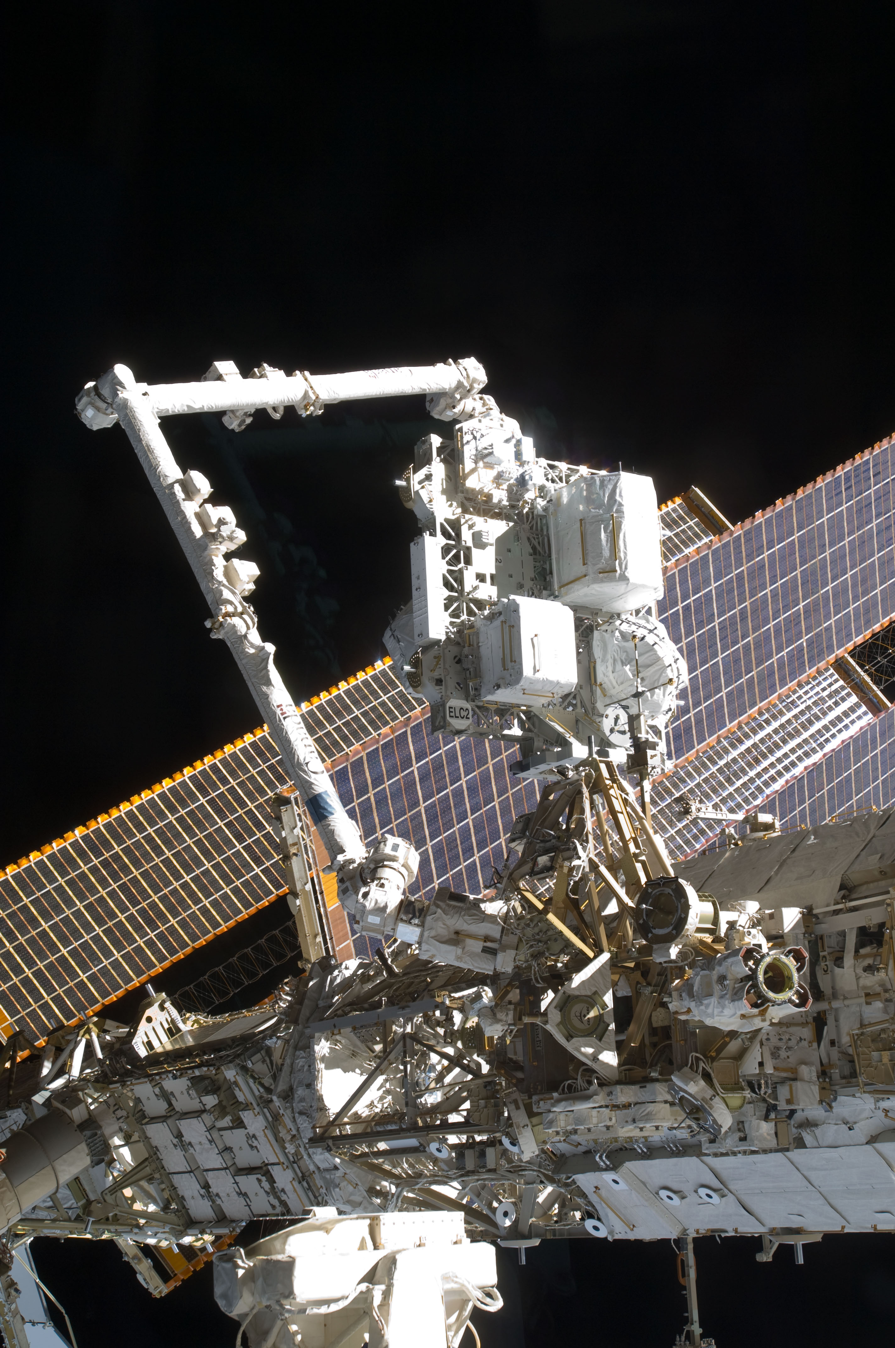 The Canadarm2 or the Space Station Remote Manipulator System mates the Express Logistics Carrier (ELC) 2 to the Zenith / Outboard Payload Attachment System (PAS) on the S3 Truss aboard the International Space Station, as controlled by Atlantis and station crews in the shirt sleeve environment of the orbital outpost.